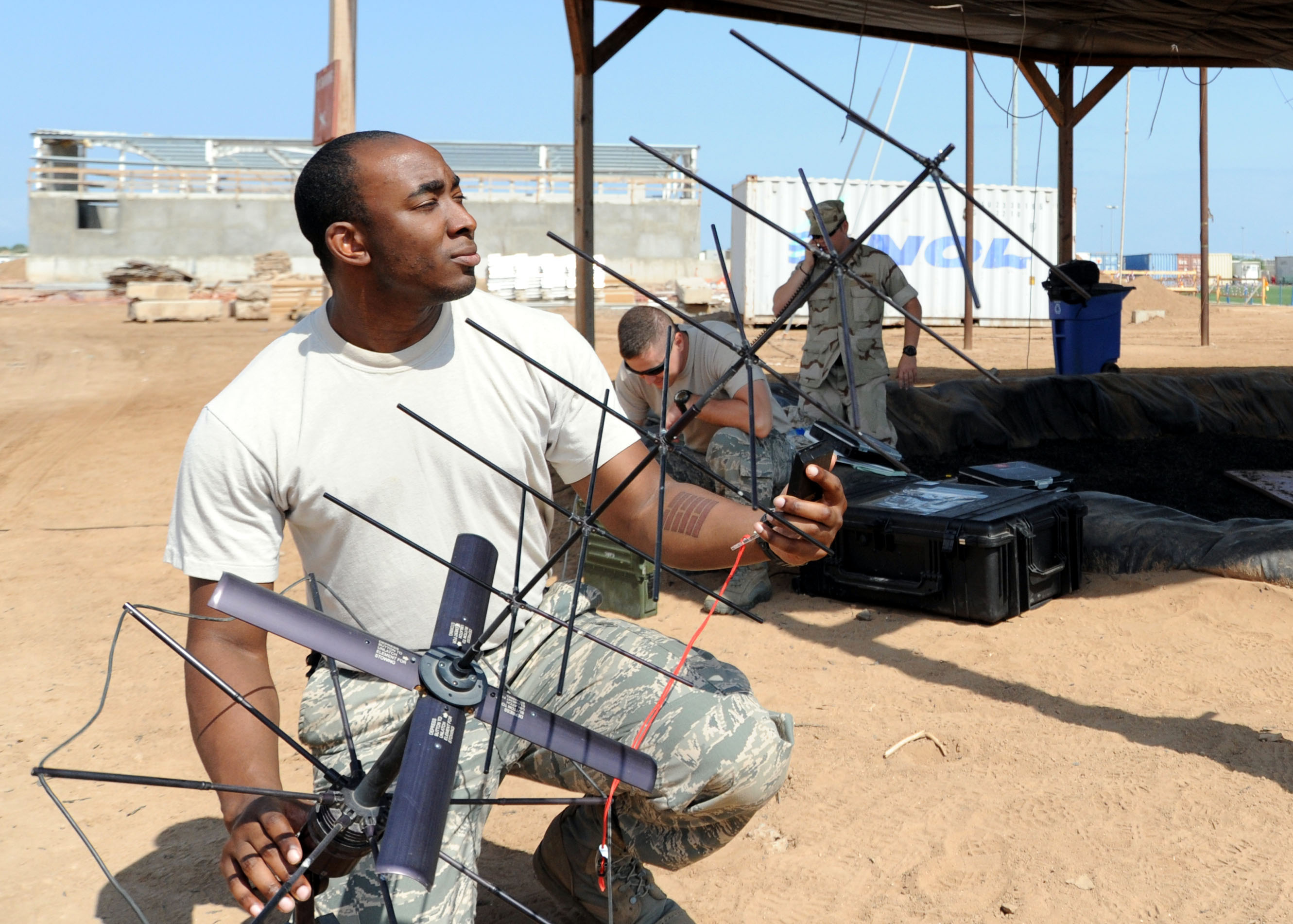 091229-N-9985W-061 CAMP LEMONNIER, Djibouti (Dec. 29, 2009) Senior Airman Carl Johnson sets up a PRC-117 tactical satellite for training at Camp Lemonnier, Djibouti. Hands-on training gives personnel the skills necessary to install, operate and maintain these systems in realistic field environments. The antenna he is assembling is a high gain UHF turnstile antenna, consisting of two Yagi arrays mounted perpendicularly on a common boom, fed in quadrature. It receives circularly polarized radio waves, which are used for satellite communication since they are insensitive to the relative orientation of the transmitting and receiving antennas elements.